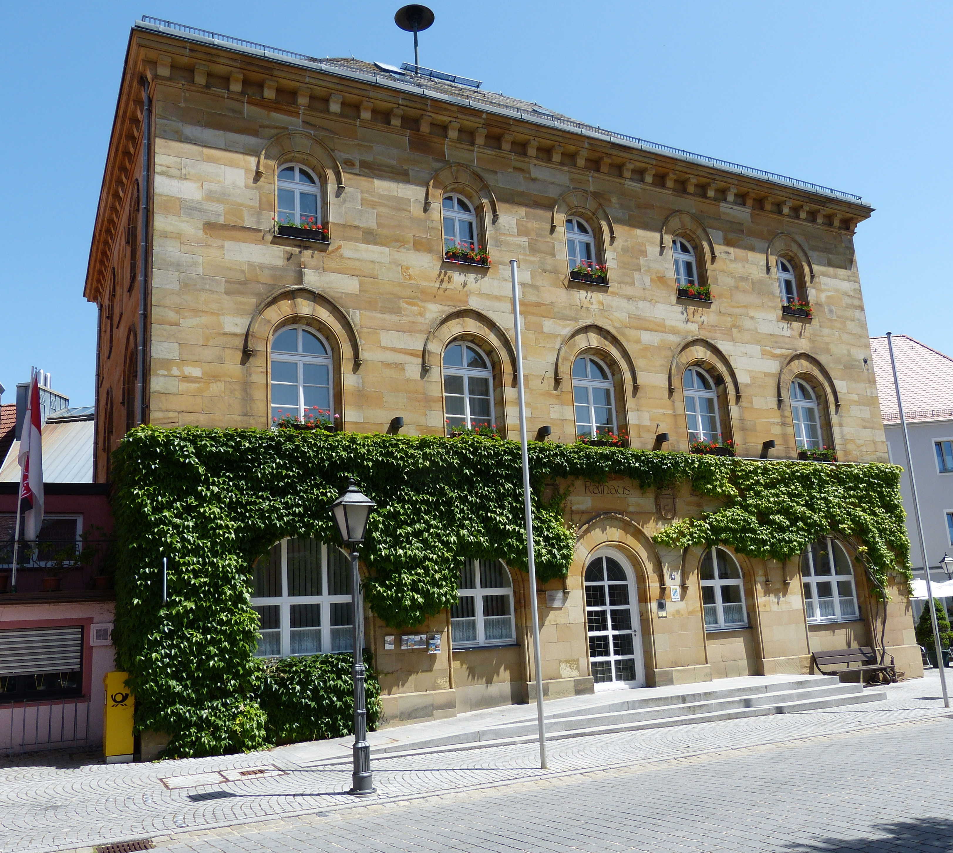 Wassertrüdingen ( Bavaria ). Town hall ( 1850 )